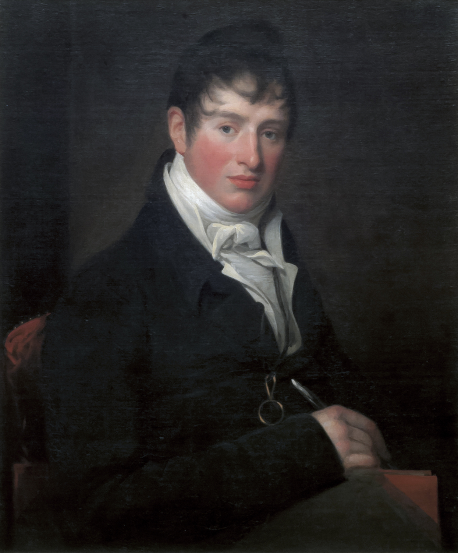 Peter Bayley (1778-1823) circa 1800-1815